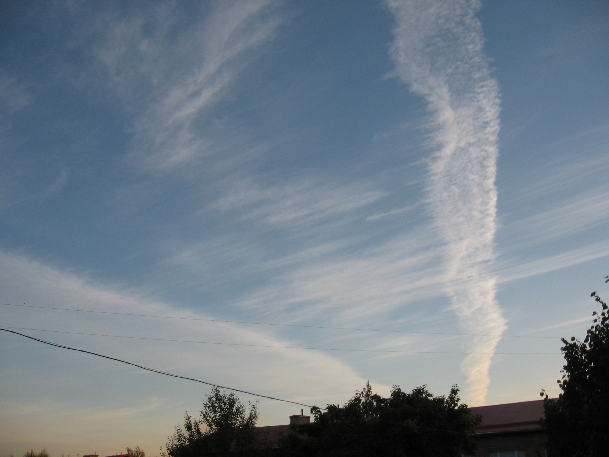 Contails. Narva, Estonia